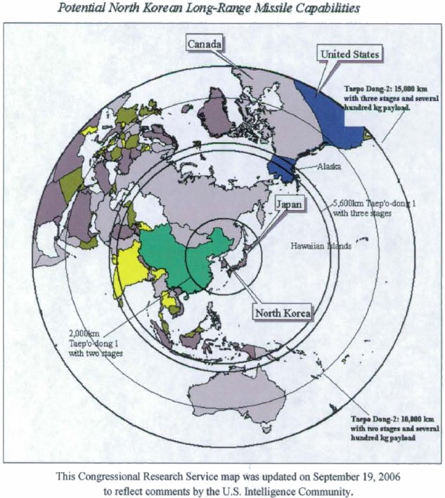 Congressional research service map of North Korean ballistic missile ranges